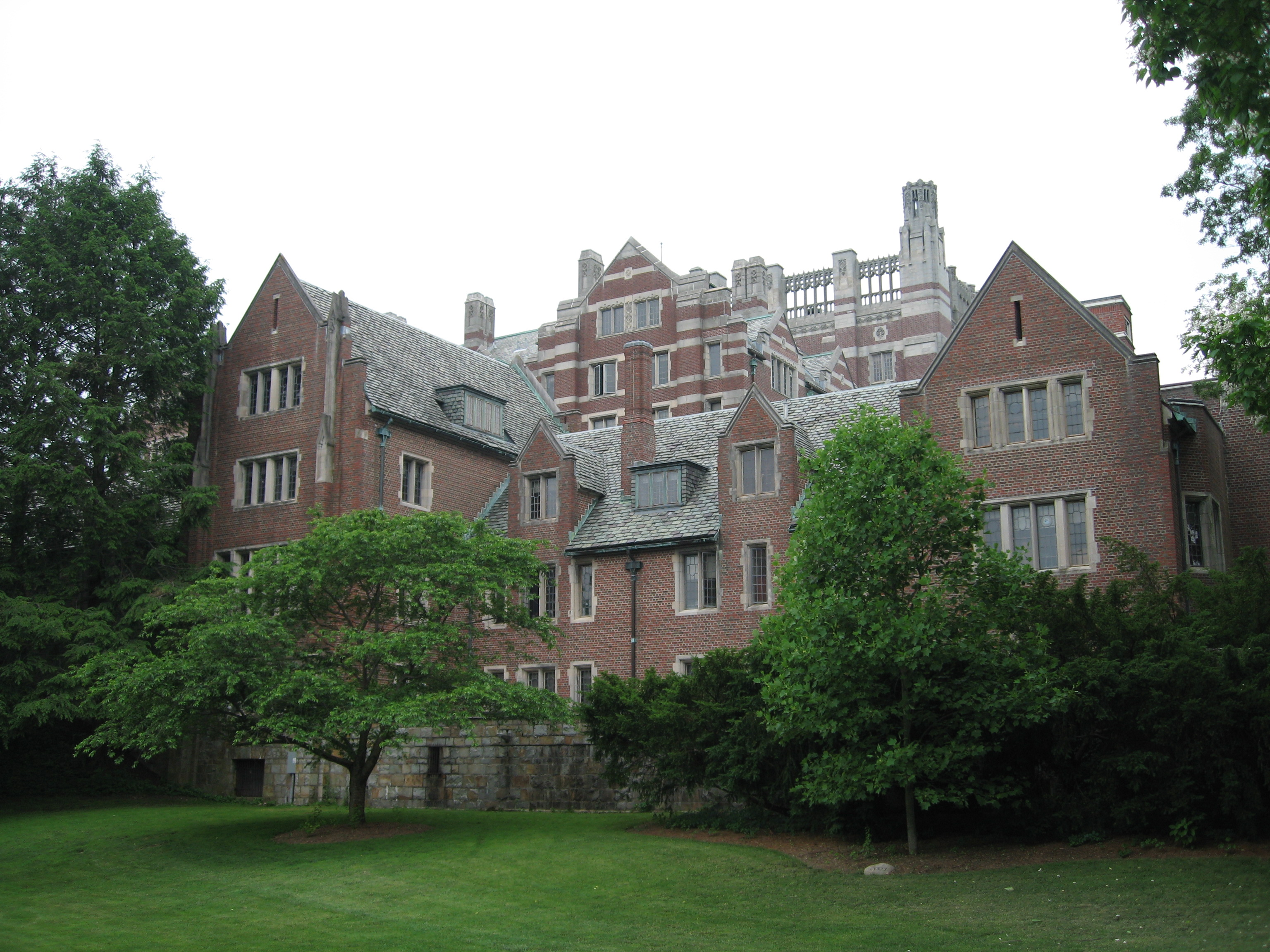 Wellesley College campus